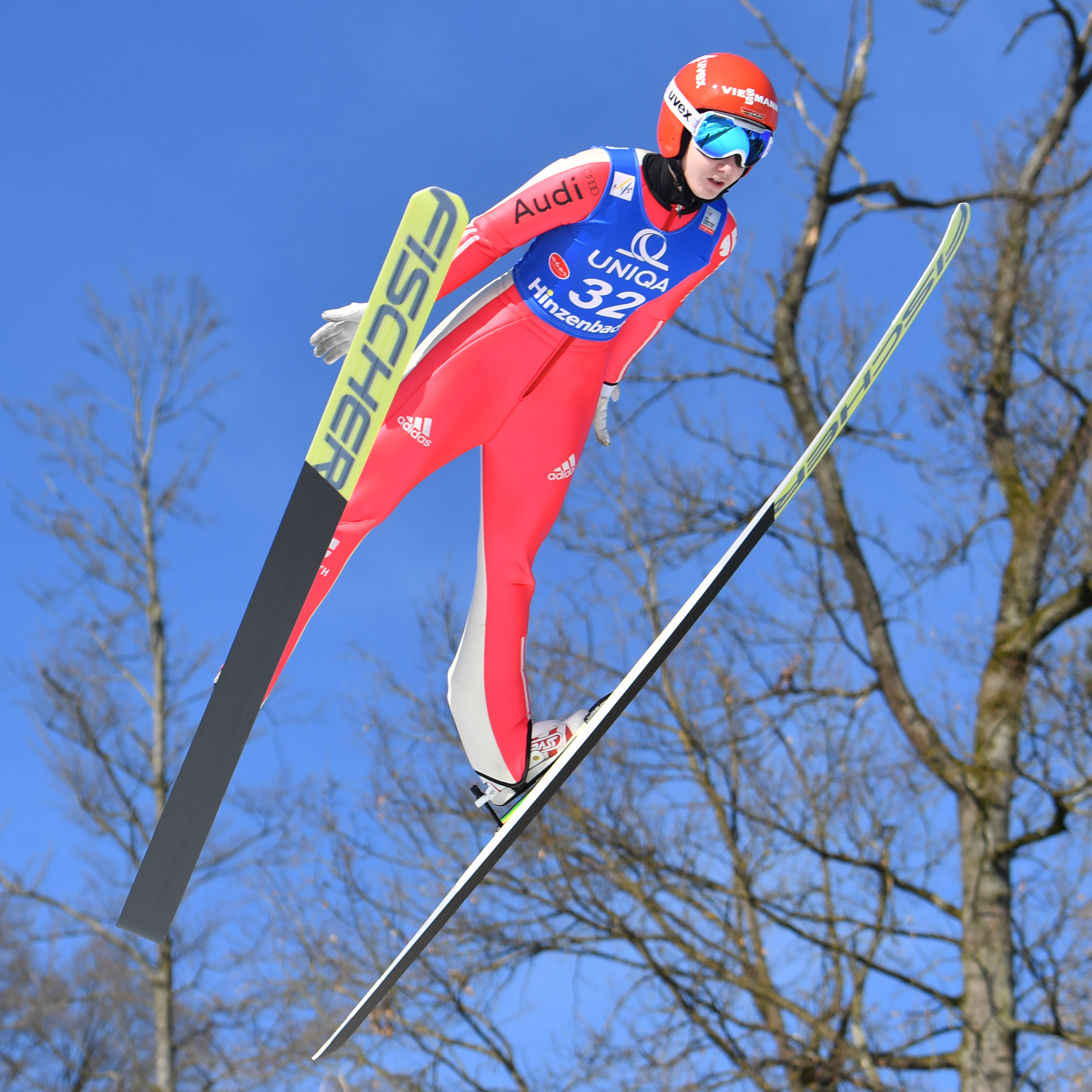 05/02/17, Hinzenbach, Austria, FIS Ski Jumping World Cup Ladies 2017